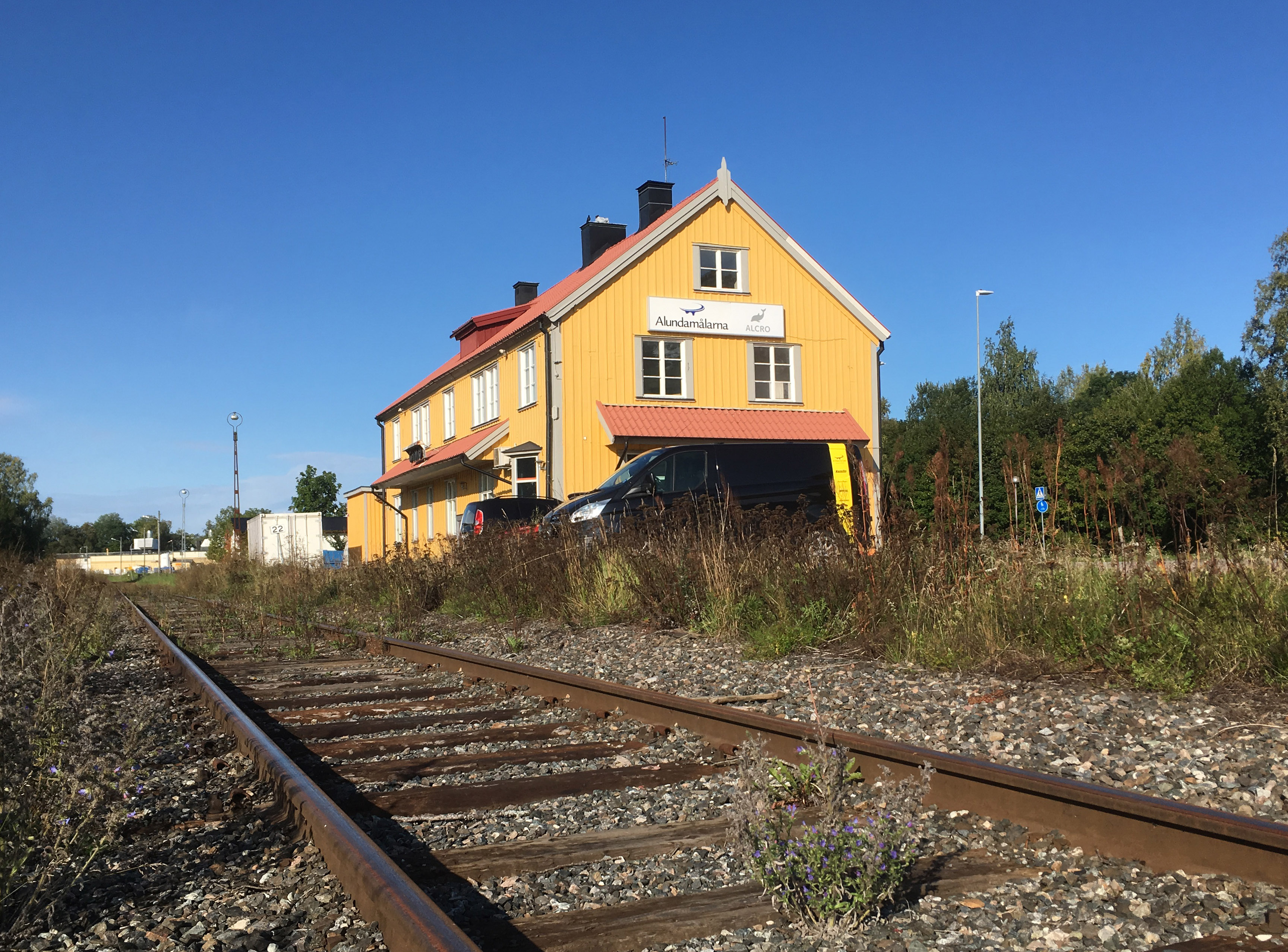 Gimo train station, Sweden, September 2019